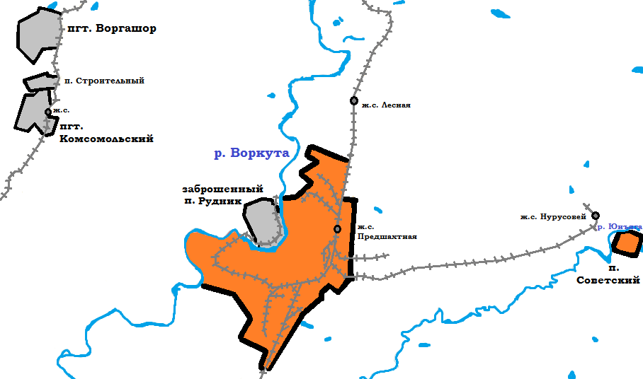 Map of Vorkuta (Russia)